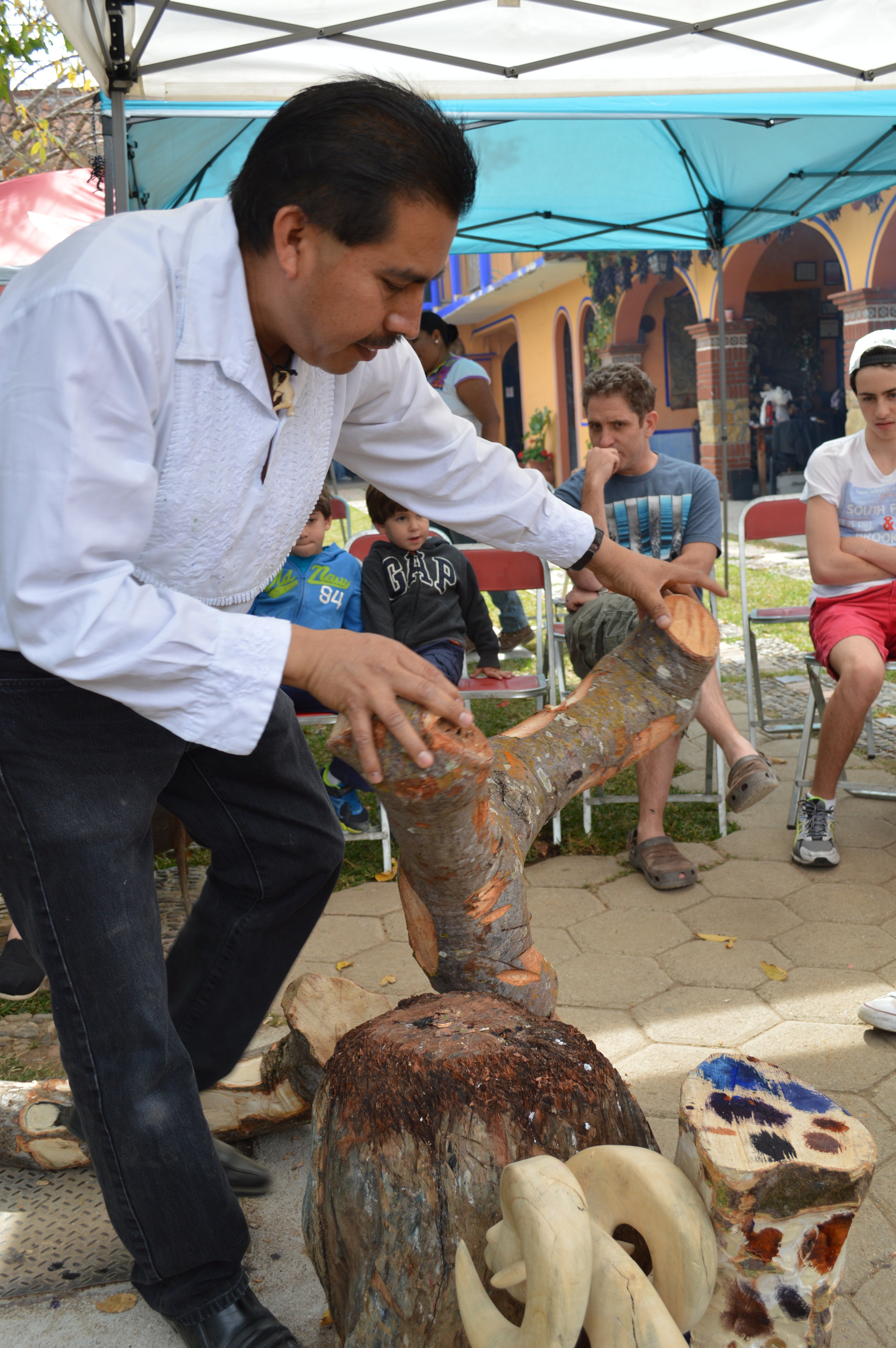 Jacobo Angeles with ocote tree log giving an orientation on alebrijes and natural paints at his workshop in San Martin Tilcajete, Oaxaca